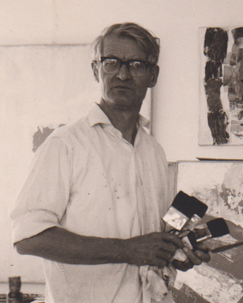 Portrait: Fritz Harnest in his studio in 1965